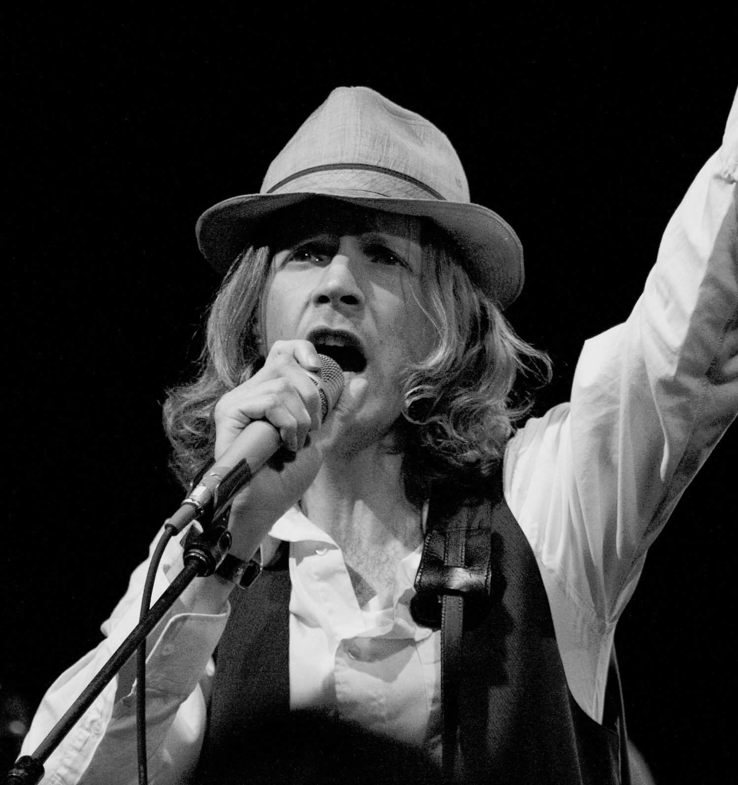 Beck performing at Yahoo! Hack Day (09/29/2006). Cropped version of the original.